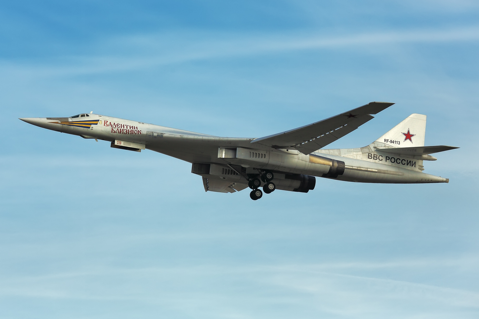 Tupolev Tu-160 in flight